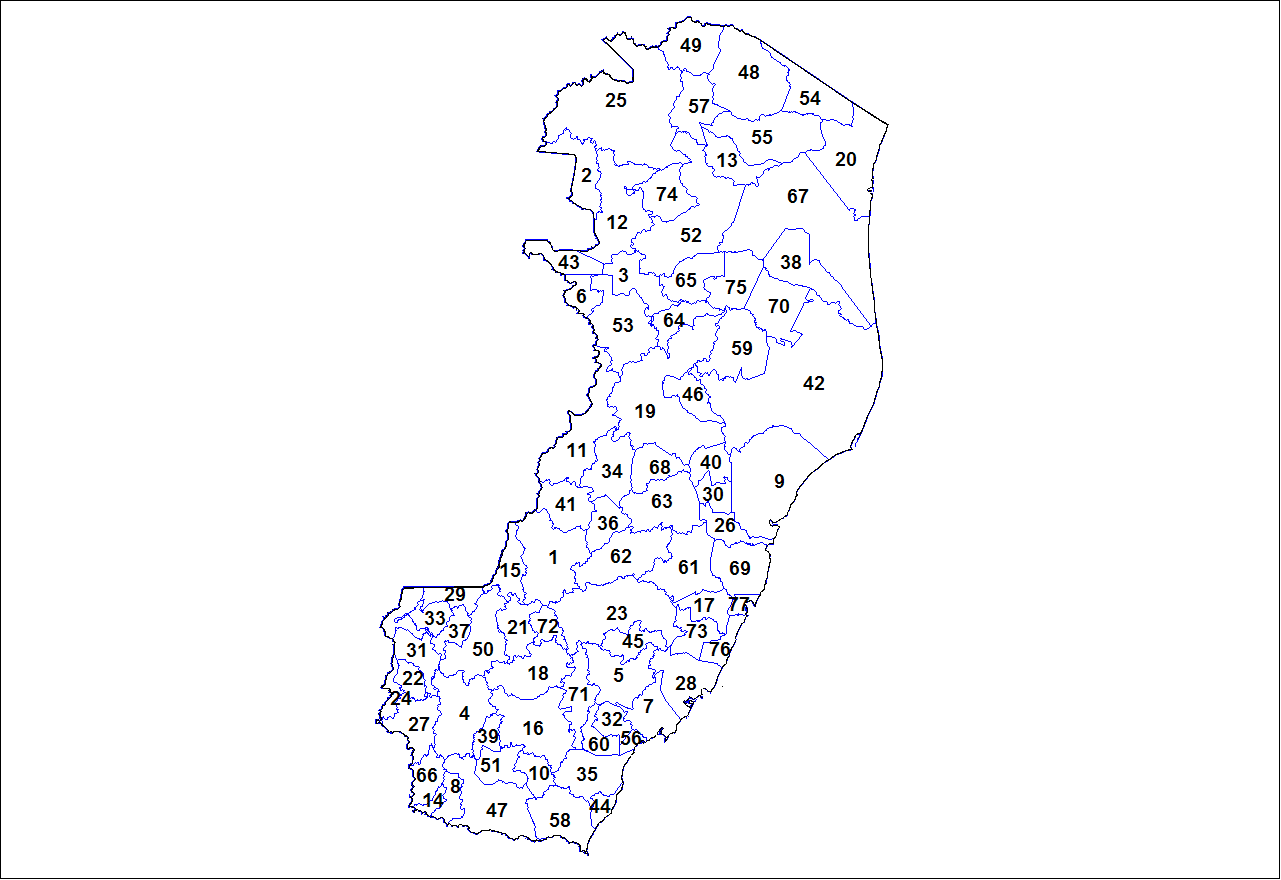 Map of the municipalities of the state of Espirito Santo, Brazil. Created by Rarelibra 20:13, 24 August 2006 (UTC) for public domain use. Created using MapInfo Professional v8.5 and various mapping resources.